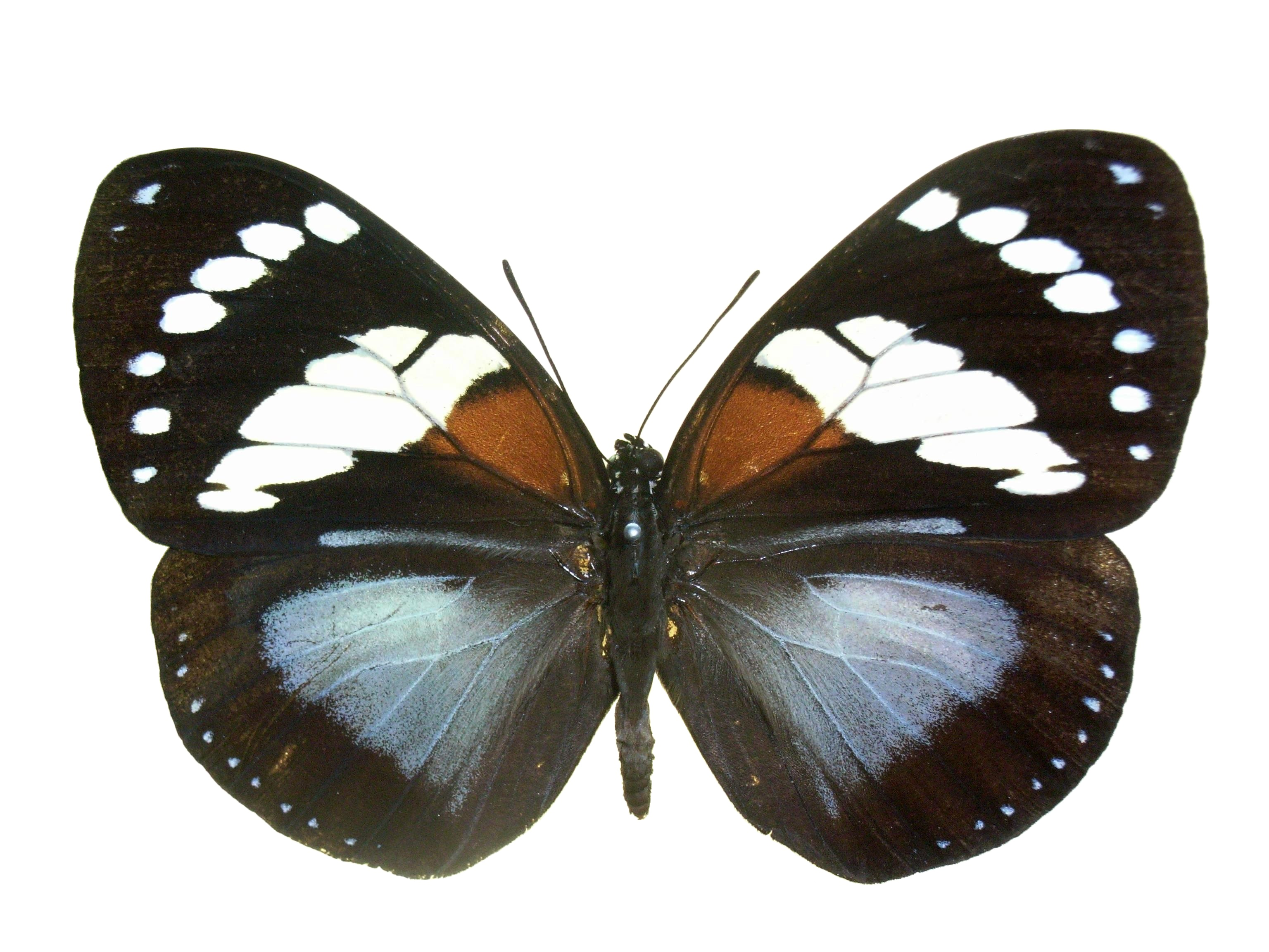 Euxanthe Hypomelaena trajanus: Charaxinae: Nymphalidae